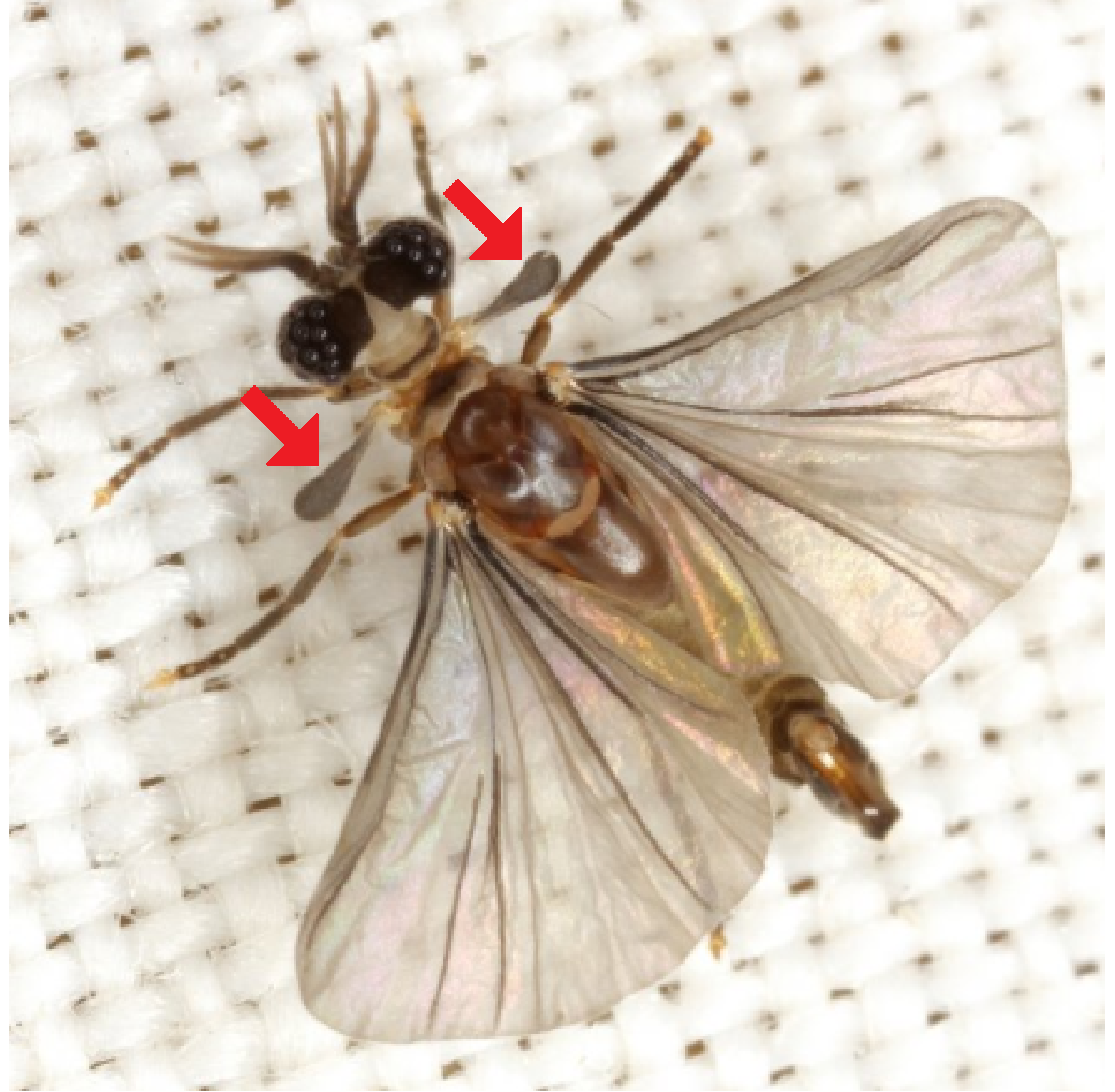 Twisted wing parasite. Red arrows indicate halteres Dorsal view of adult male Corioxenidae (Strepsiptera) (photo copyright Mike Quinn, ).